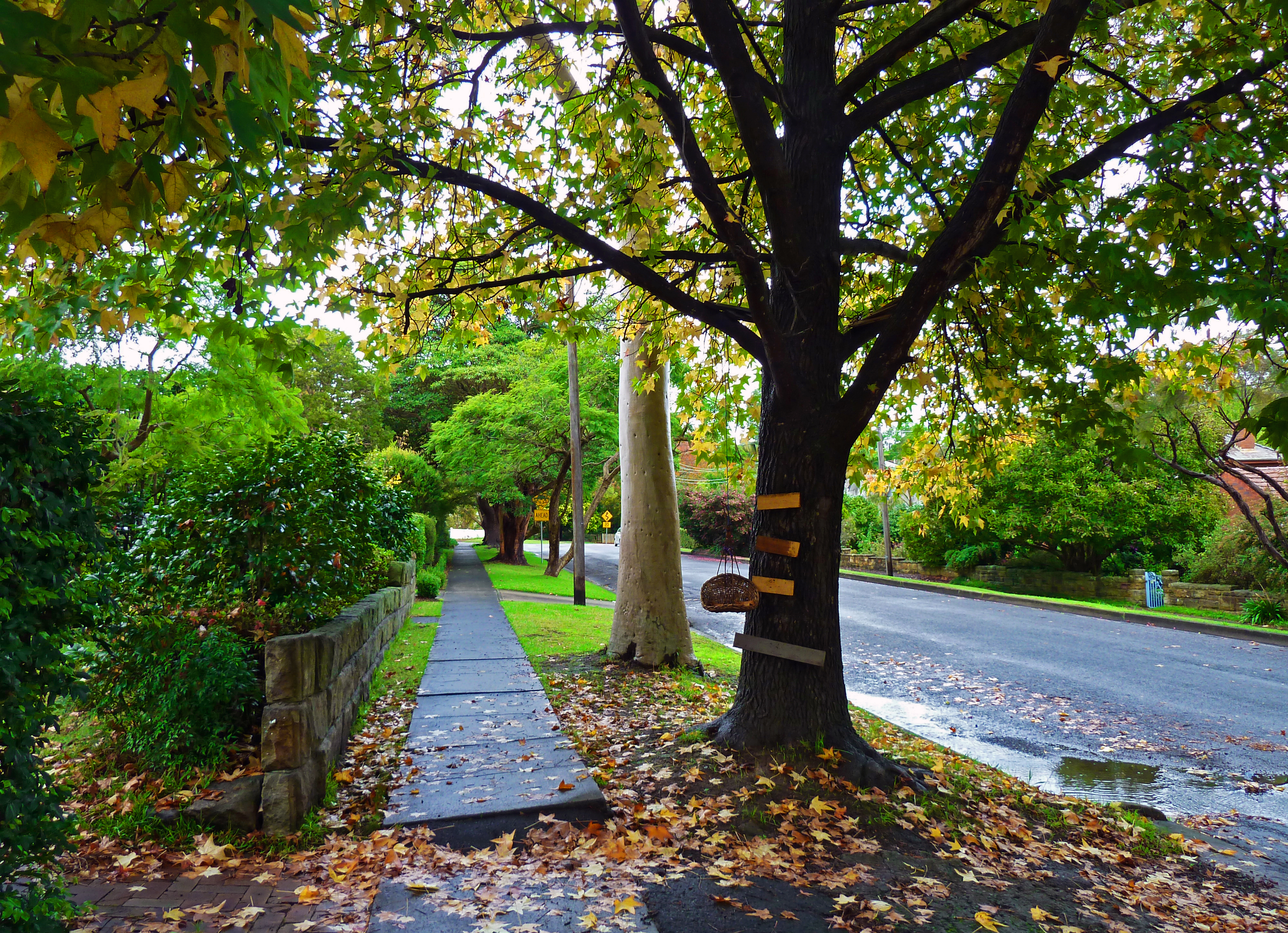 Waimea Road, Lindfield, New South Wales, Australia.